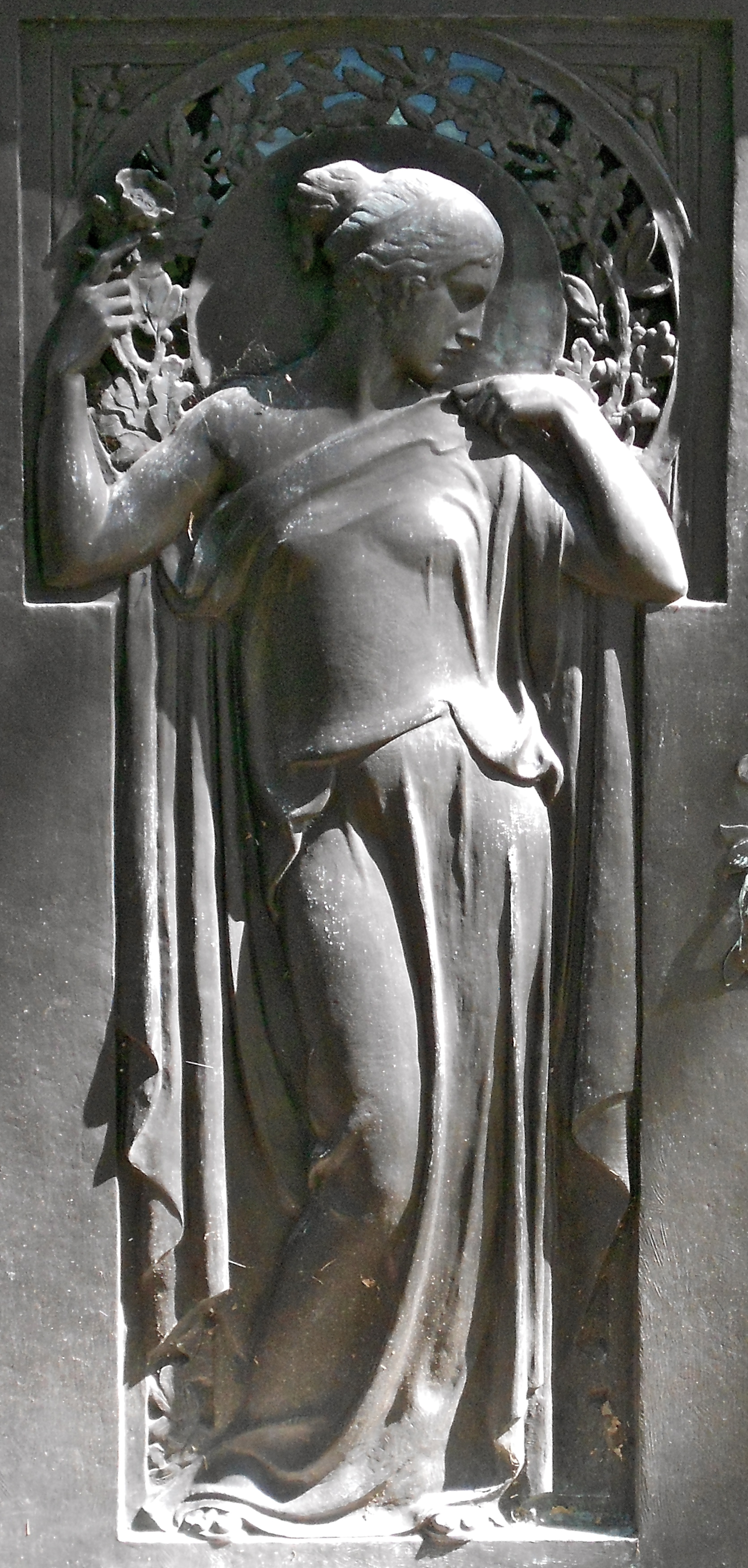 West Laurel Hill Cemetery Art object in West Laurel Hill Cemetery in Montgomery County, Pennsylvania on the NRHP